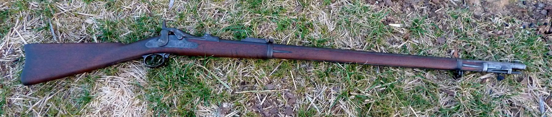 A side profile of the Springfield Model 1884 "Trapdoor" rifle.